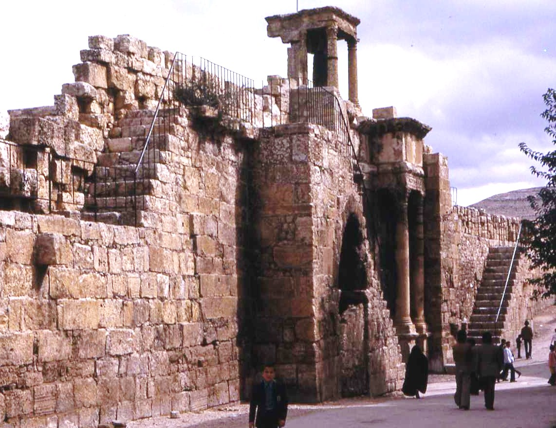 Stone walls and the Arch of Caracalla — in Tébessa (Theveste), northeastern Algeria.